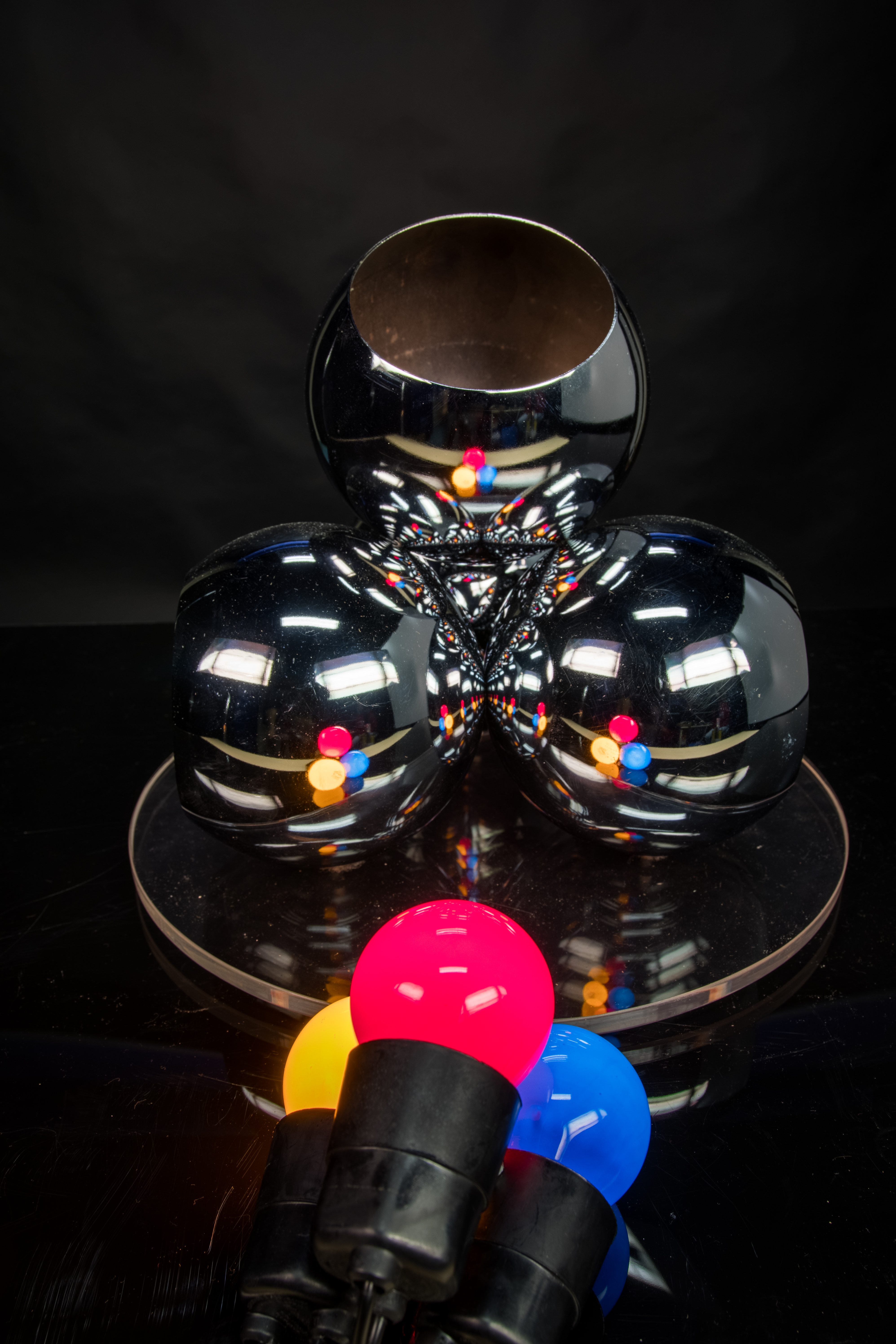 Object representing the Lakes of Wada